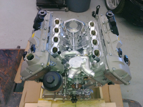 Excellent Condition. FORGED BUILT BMW S65 V8 M3 ENGINE Brand New Forged Pauter Rods Steel Sleeved Block Brand New Forged Pistons New "WPC" treated Rod Bearings ARP Rod Bolts Price listed is + Core ( Core charge $7000.00 )